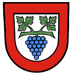 Coat of arms of Büsingen am Hochrhein